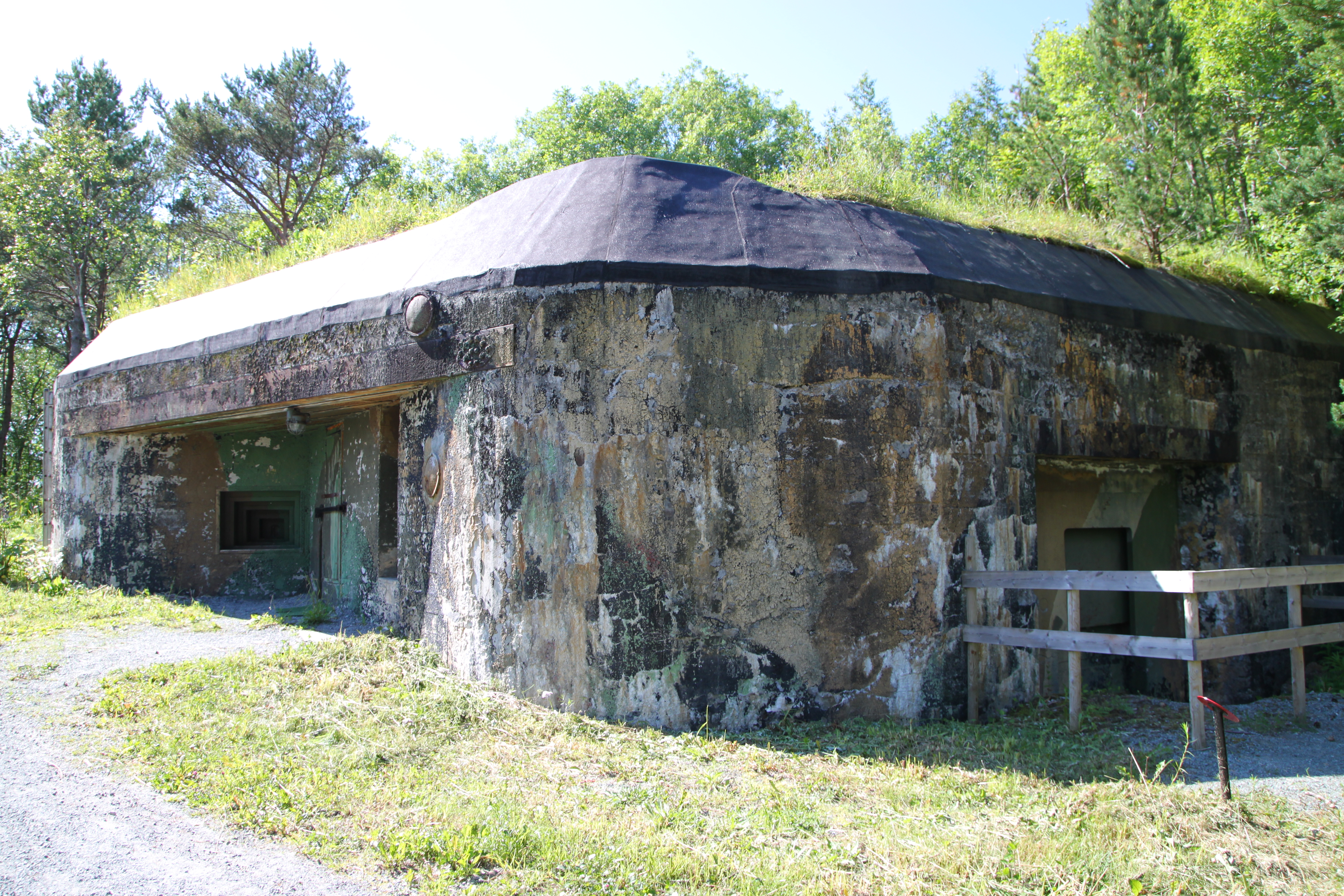 Parts of the defensive positions in front of the turret. 28 cm SK C/34 gun at Austrått Fort in Ørland, Norway